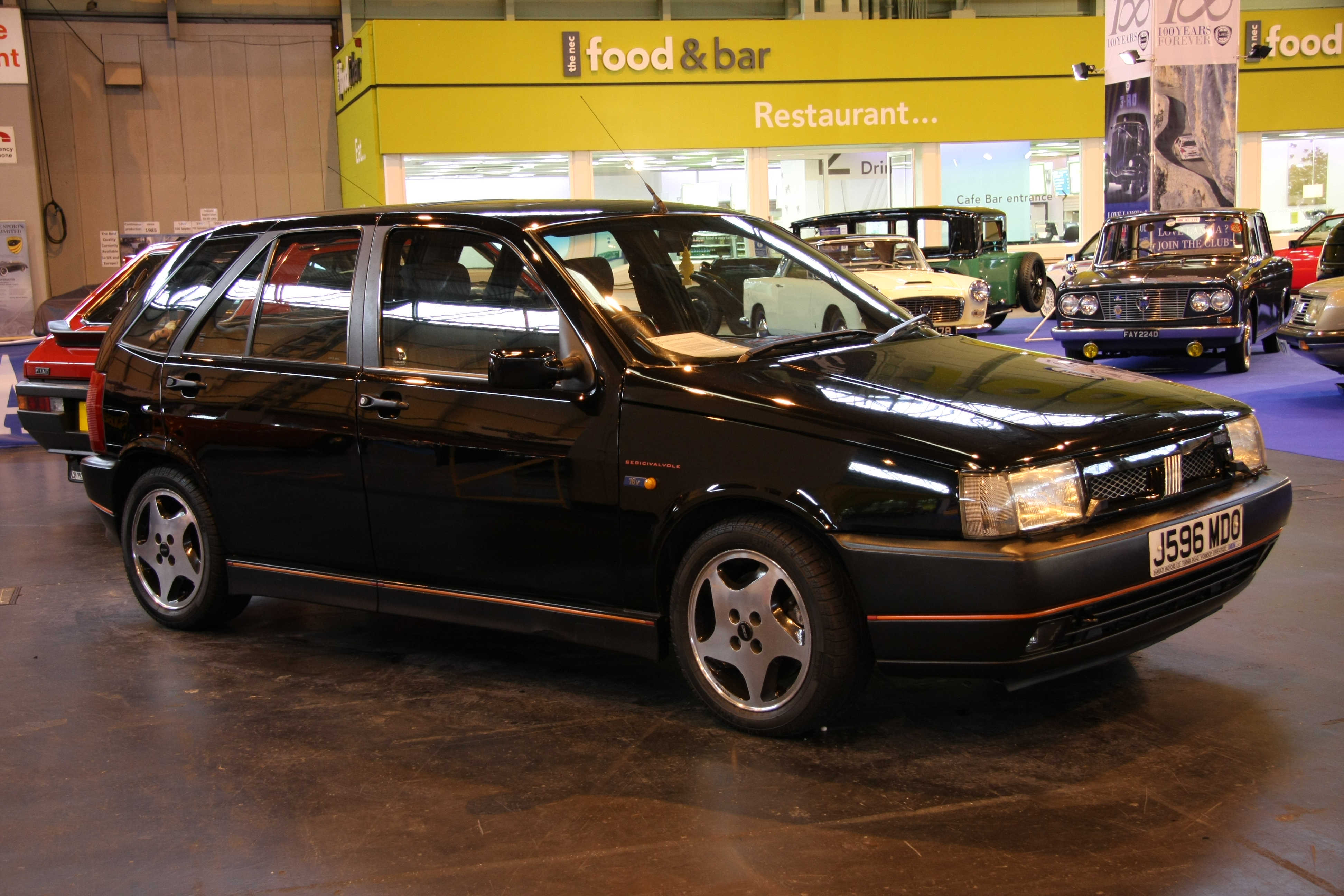 Fiat Tipo Sedicivalvole 2008 NEC Classic Car Show